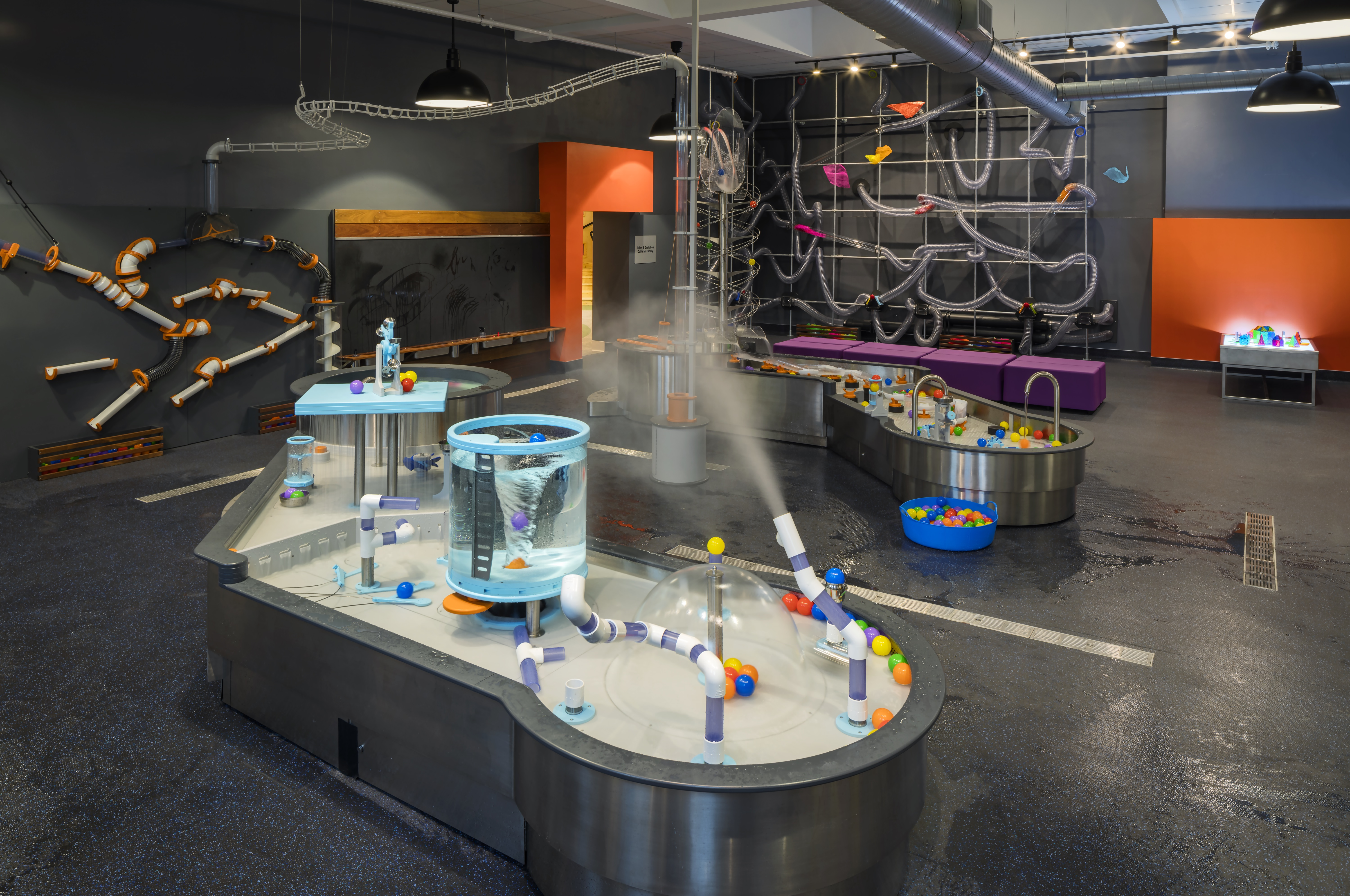 Enter a world of water and wonder in this industrial science laboratory. Children can explore whirlpools, jets, rivers, and more in two fun-filled water tables as other friends build ball tracks on the magnetic wall, make scarves fly through the air, and create cascades of bubbles. Through the joy of play and experimentation, children become scientists as they use their natural curiosity to observe and explore how things work and why things happen.